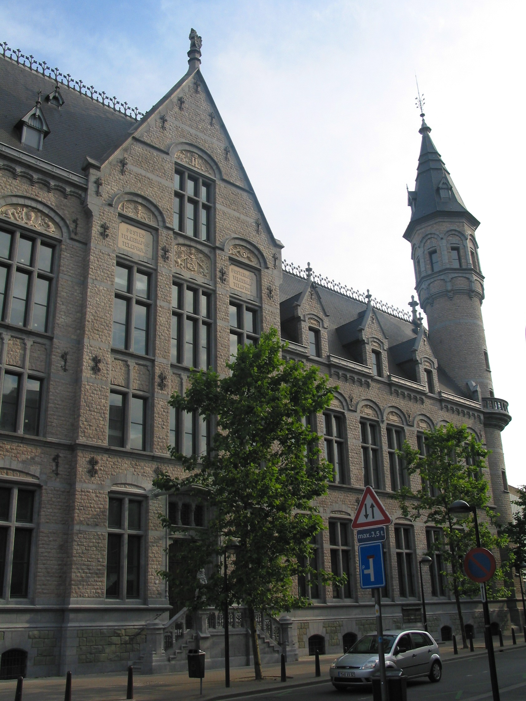 Verviers (Belgium), the "Grand'Poste" (1904/1909 - Architect: Van Hoecke).